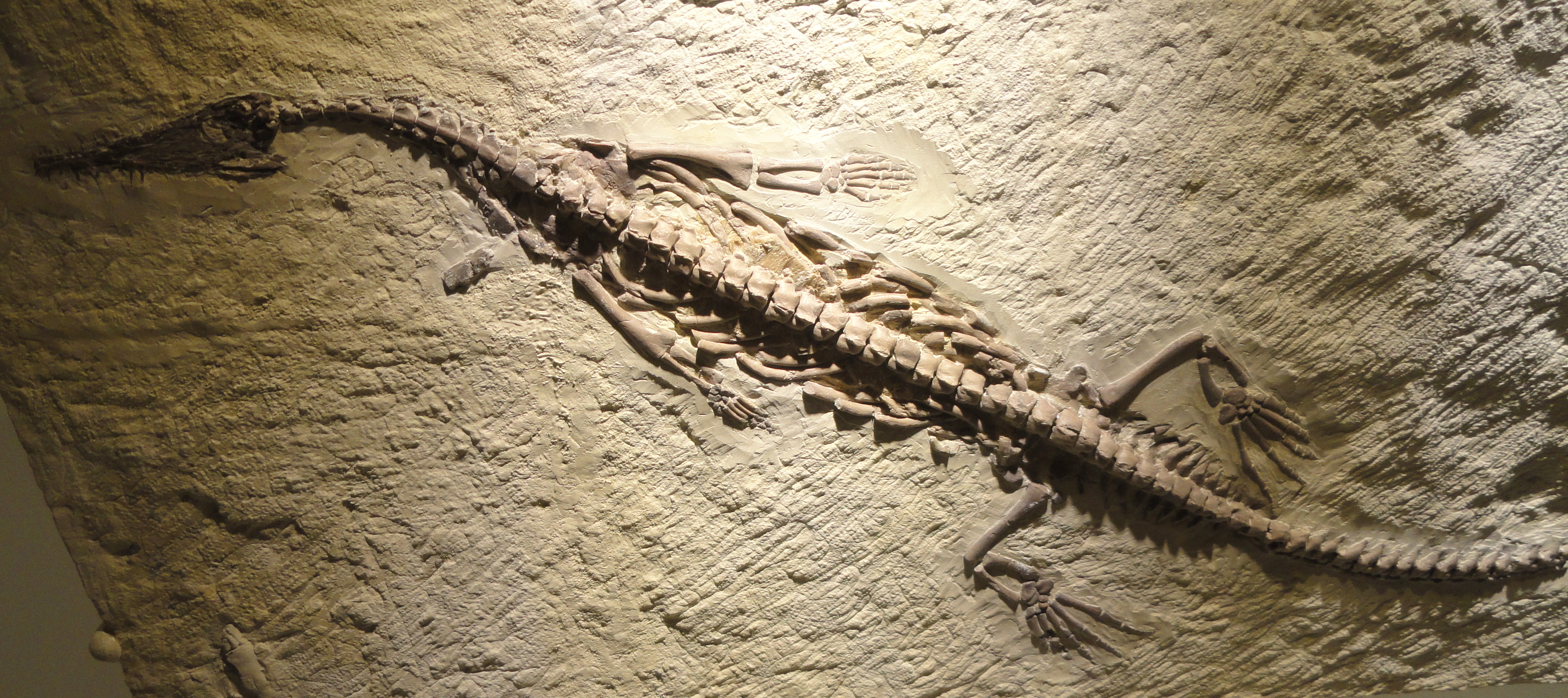 Exhibit in the Houston Museum of Natural Science, Houston, Texas, USA.